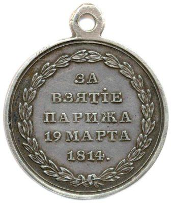 note use of Julian calendar